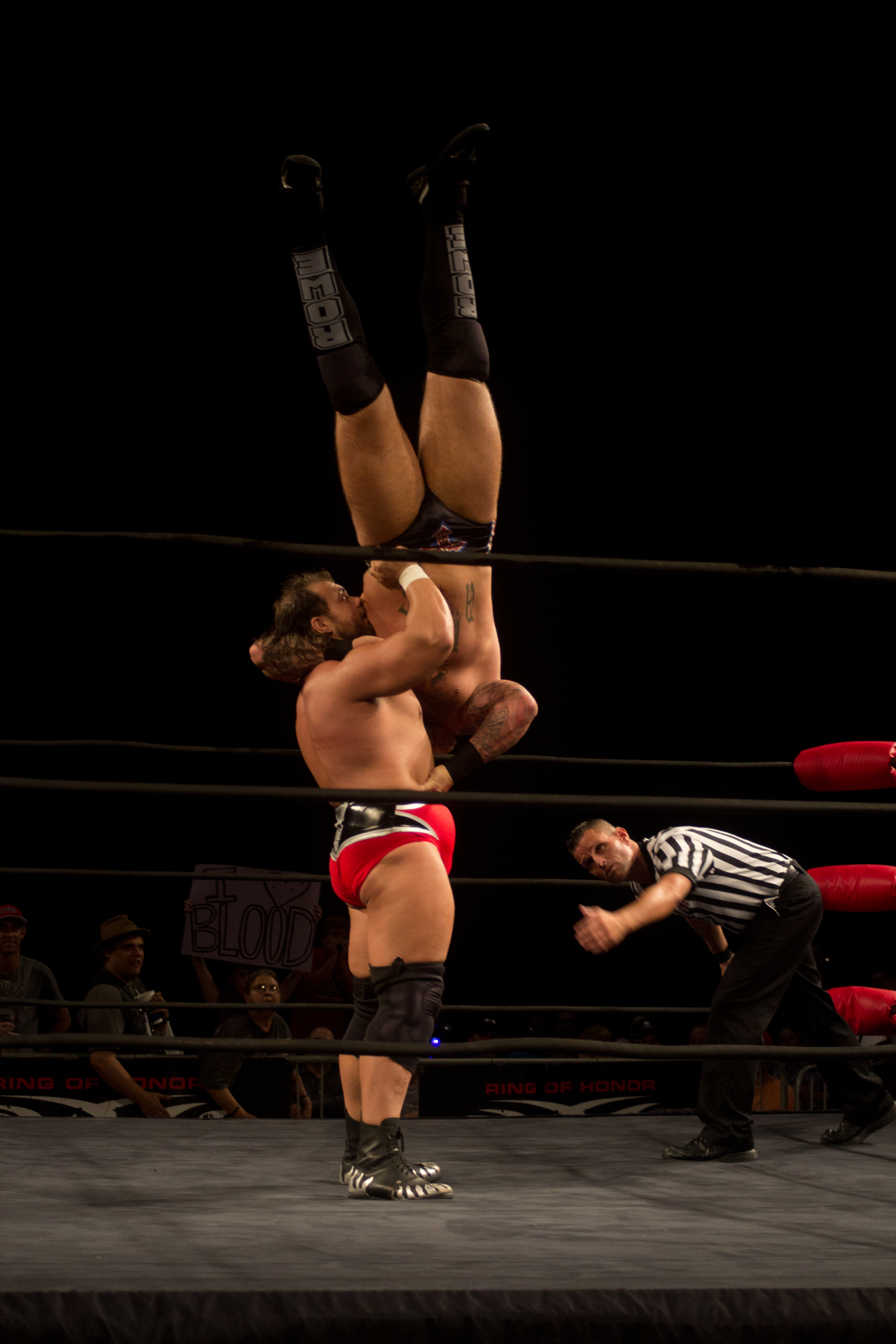 Michael Elgin performing a delayed vertical suplex on Raymond Rowe at a Ring of Honor show in September 2013.